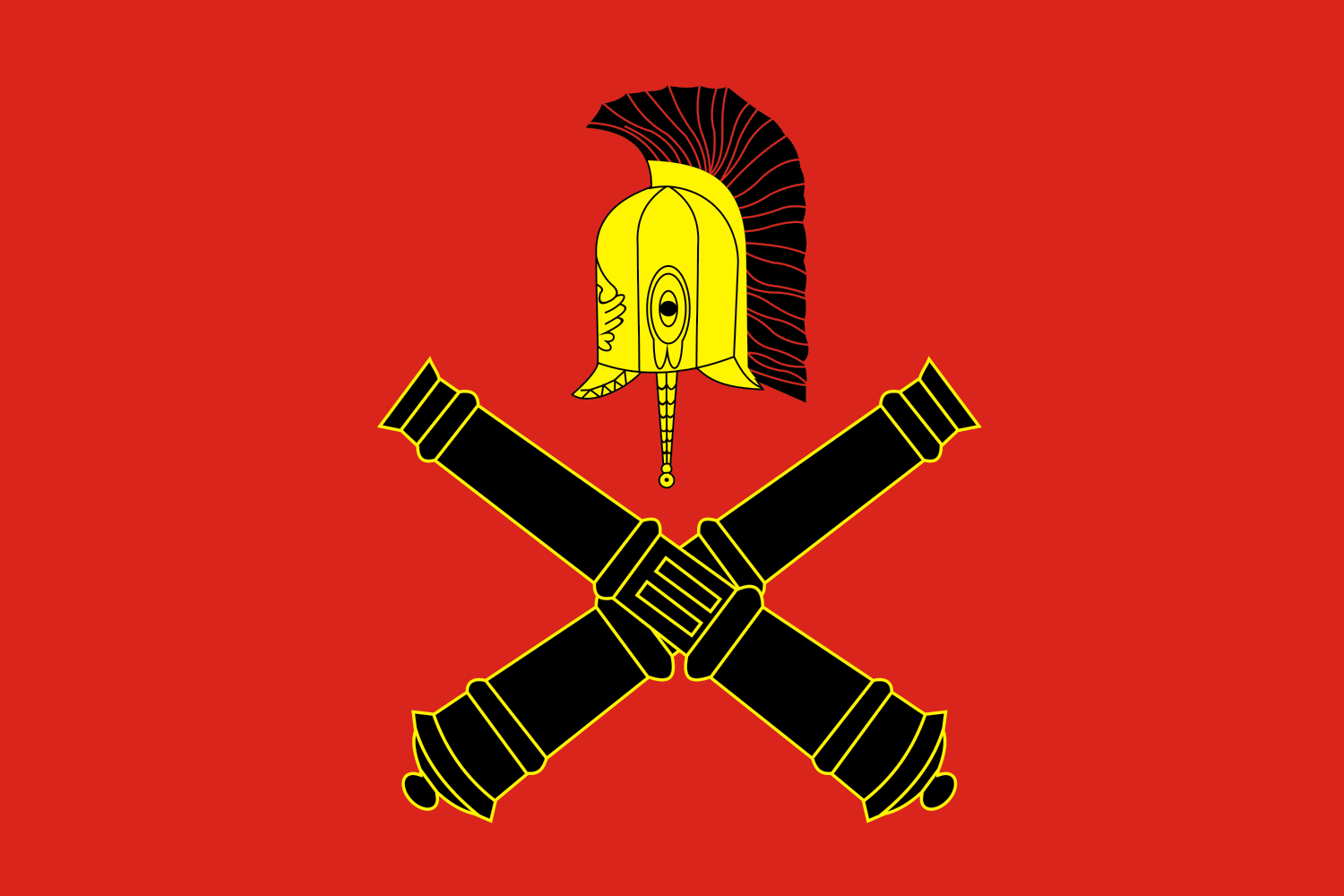 Fili-Davydkovo (municipality in Moscow), flag